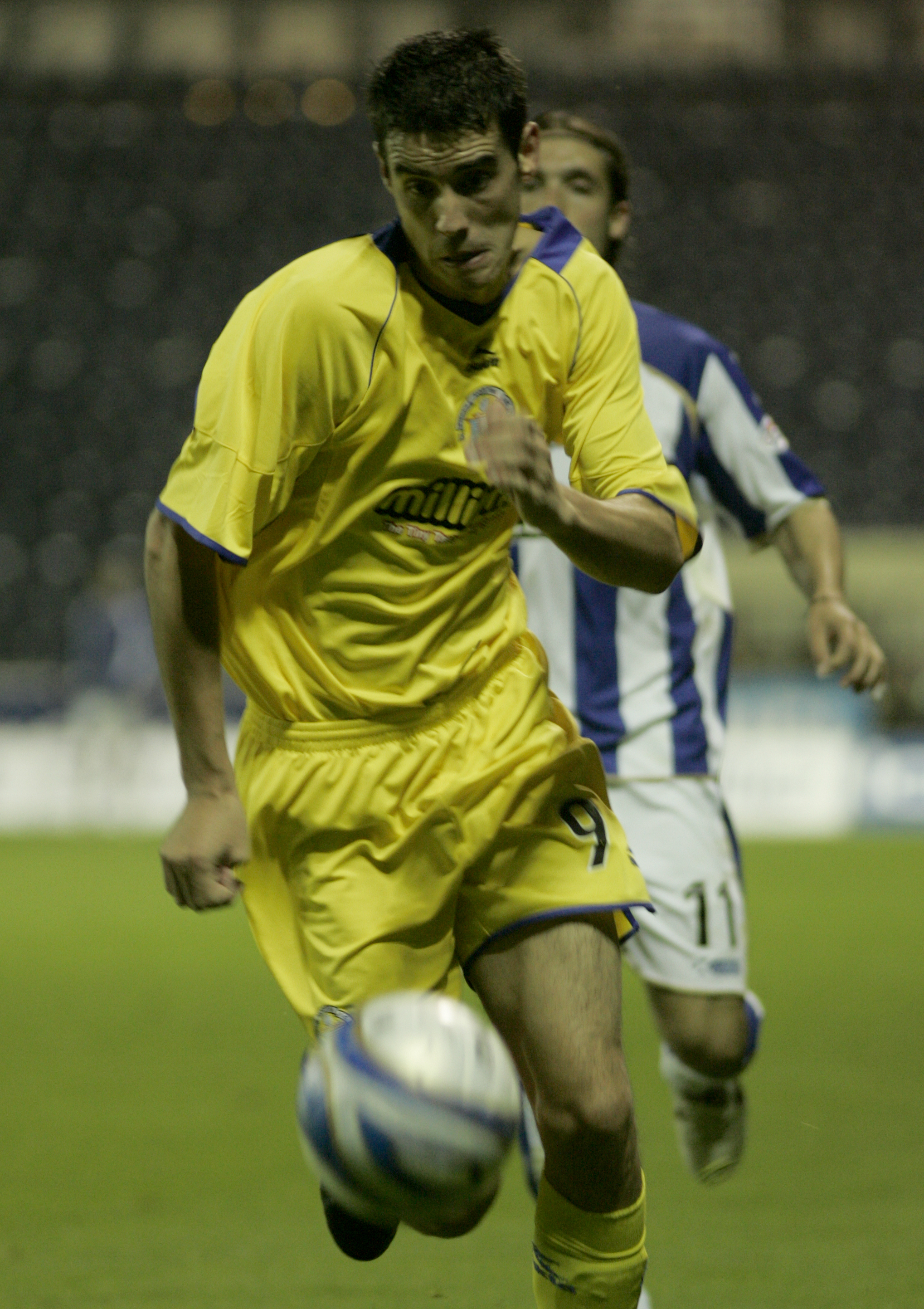 Kilmarnock vs Morton - CIS Cup 2nd Round.